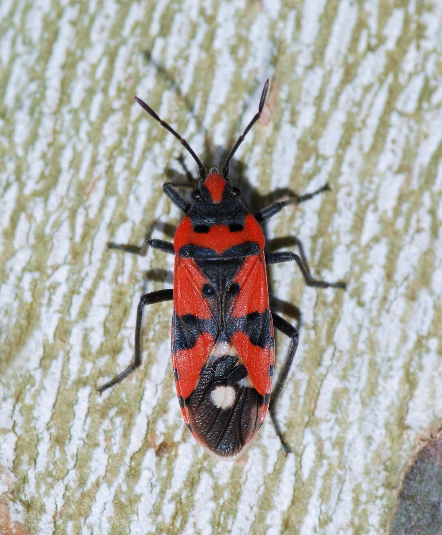 A ground bug (Lygaeus equestris\simulans).